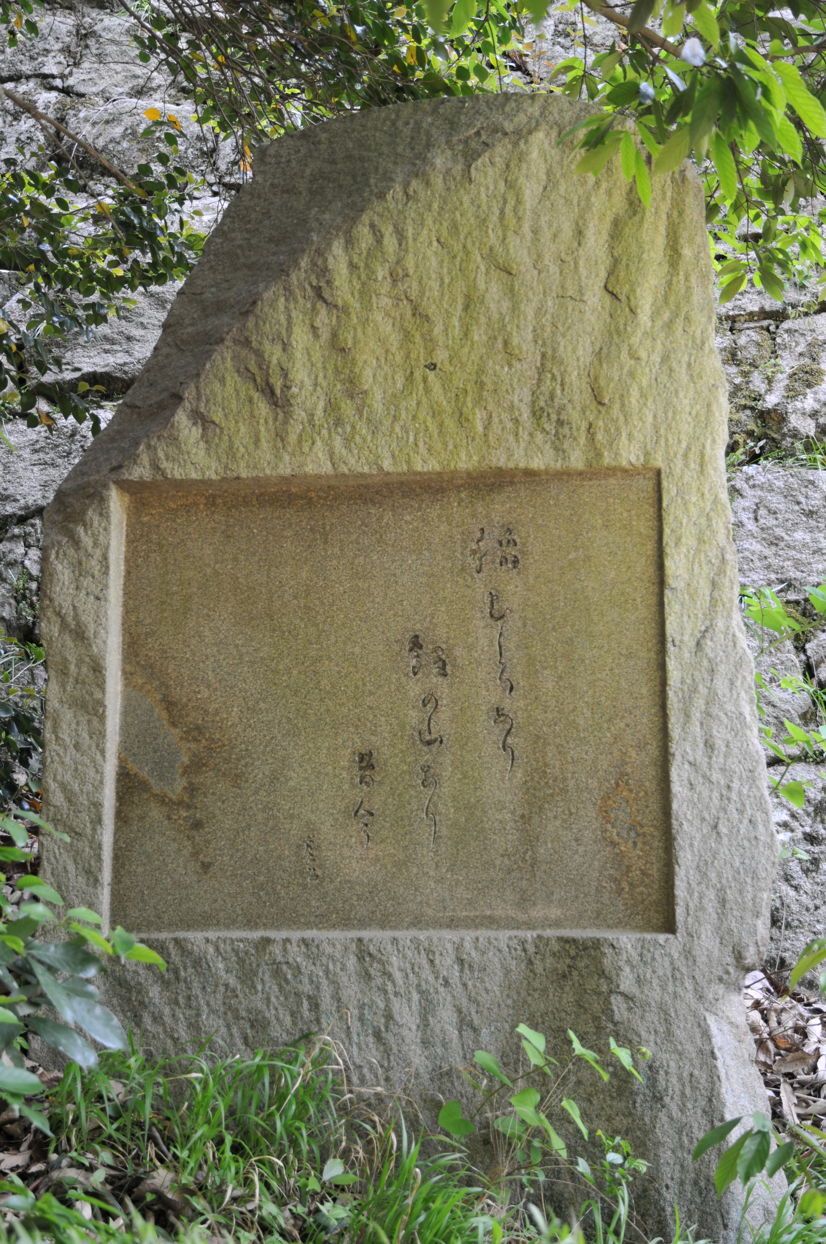 Takahama Kyoshi Haiku monument in Marugame castle